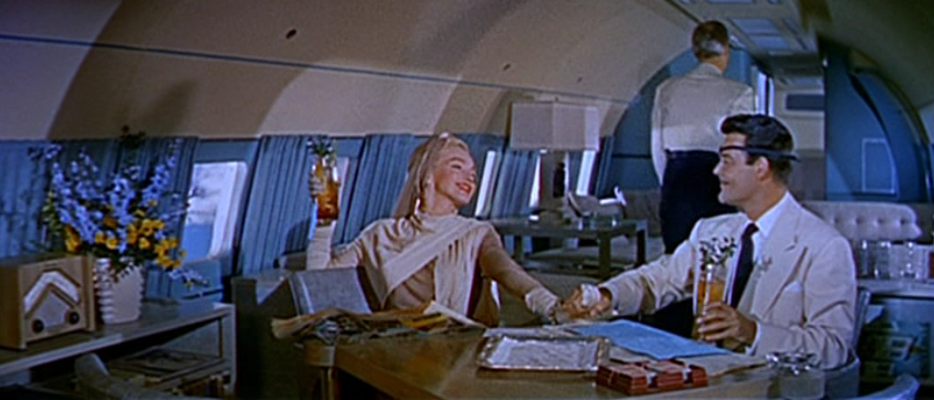 Cropped screenshot of Marilyn Monroe and Alexander D'Arcy in the trailer for the film How to Marry a Millionaire